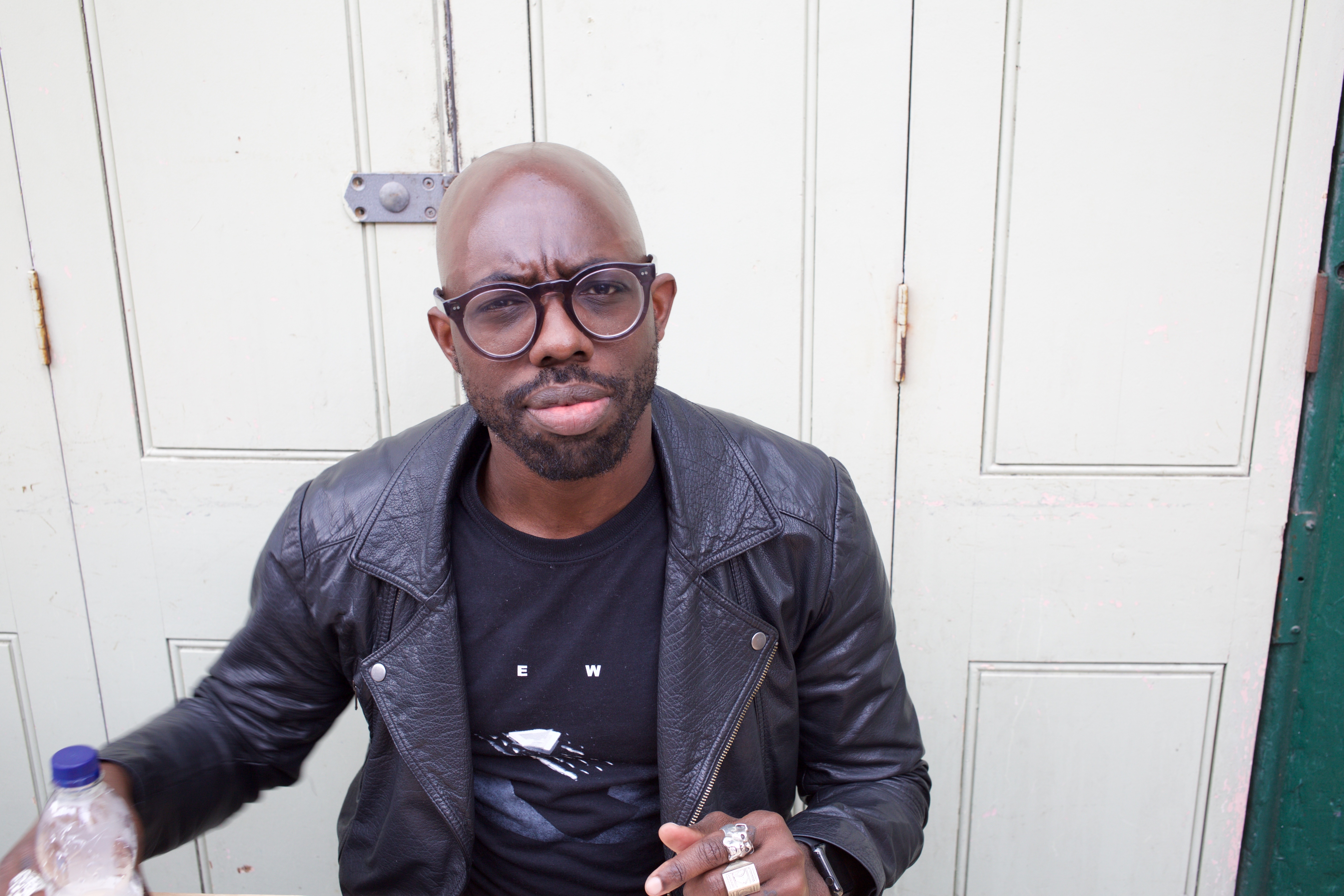 Obaro Ejimiwe (Ghostpoet) in 2017